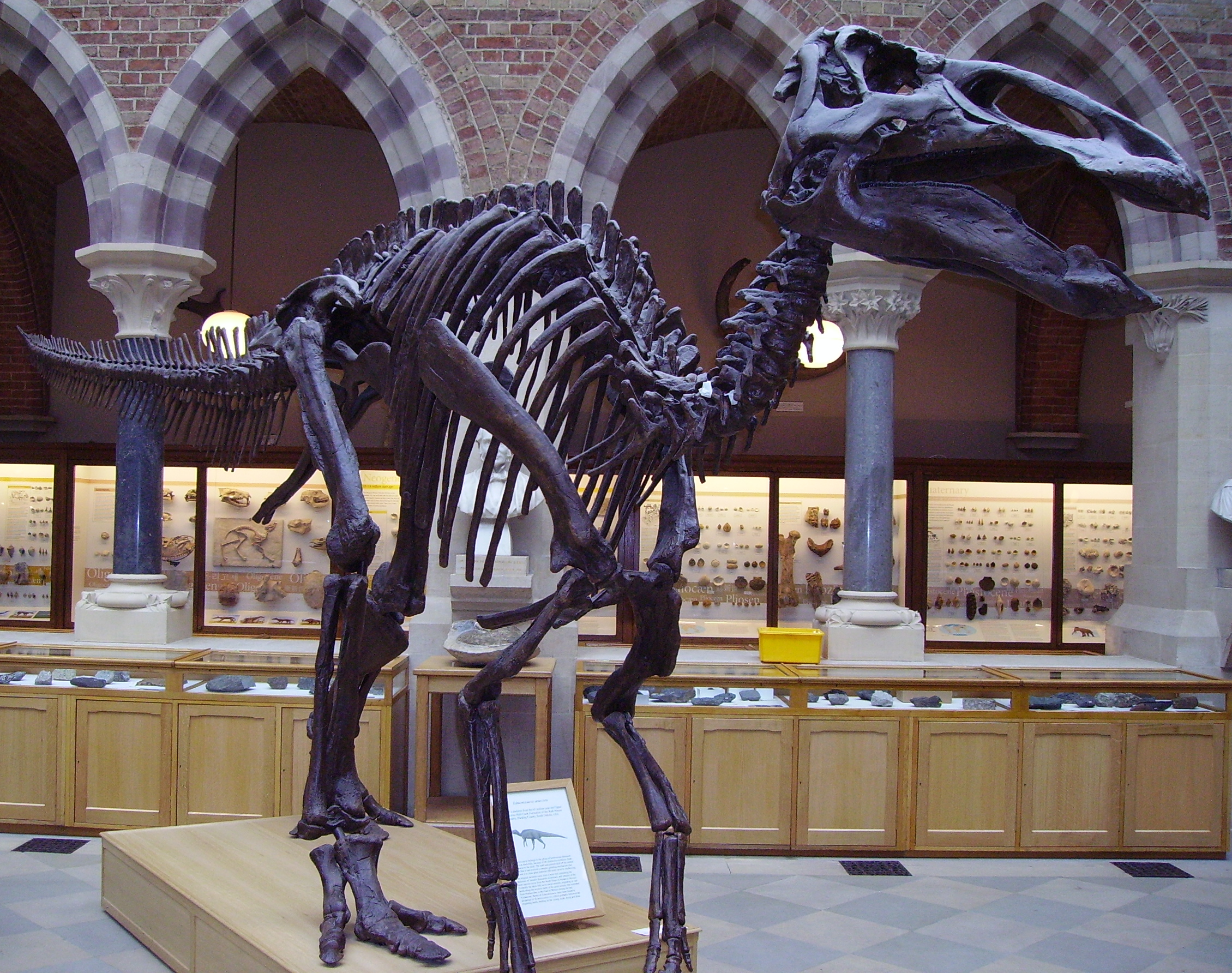 Mounted replica of a composite skeleton of Edmontosaurus annectens on display at the University of Oxford Museum, Oxford, England. The original skeleton is compiled from disarticulated fossil bones from a bonebed of the Hell Creek Formation, exposed in the Ruth Mason Quarry in Harding County, South Dakota. It is 8.5 m (28 ft.) long and the skull is almost 1 m (39 in.) in length.[1][2] ↑ Dinosaurs in the Museum. Oxford University Museum of Natural History (brochure, PDF), p. 7 ↑ BHI Fossil Replica Catalog 2012. Black Hills Institute of Geological Research, Inc., Hill City, SD, 2012 (PDF), p. 22